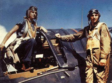 A pilot and his more casually dressed gunner pose with their late model SB2C Helldiver dive bomber sometime after October 1944.